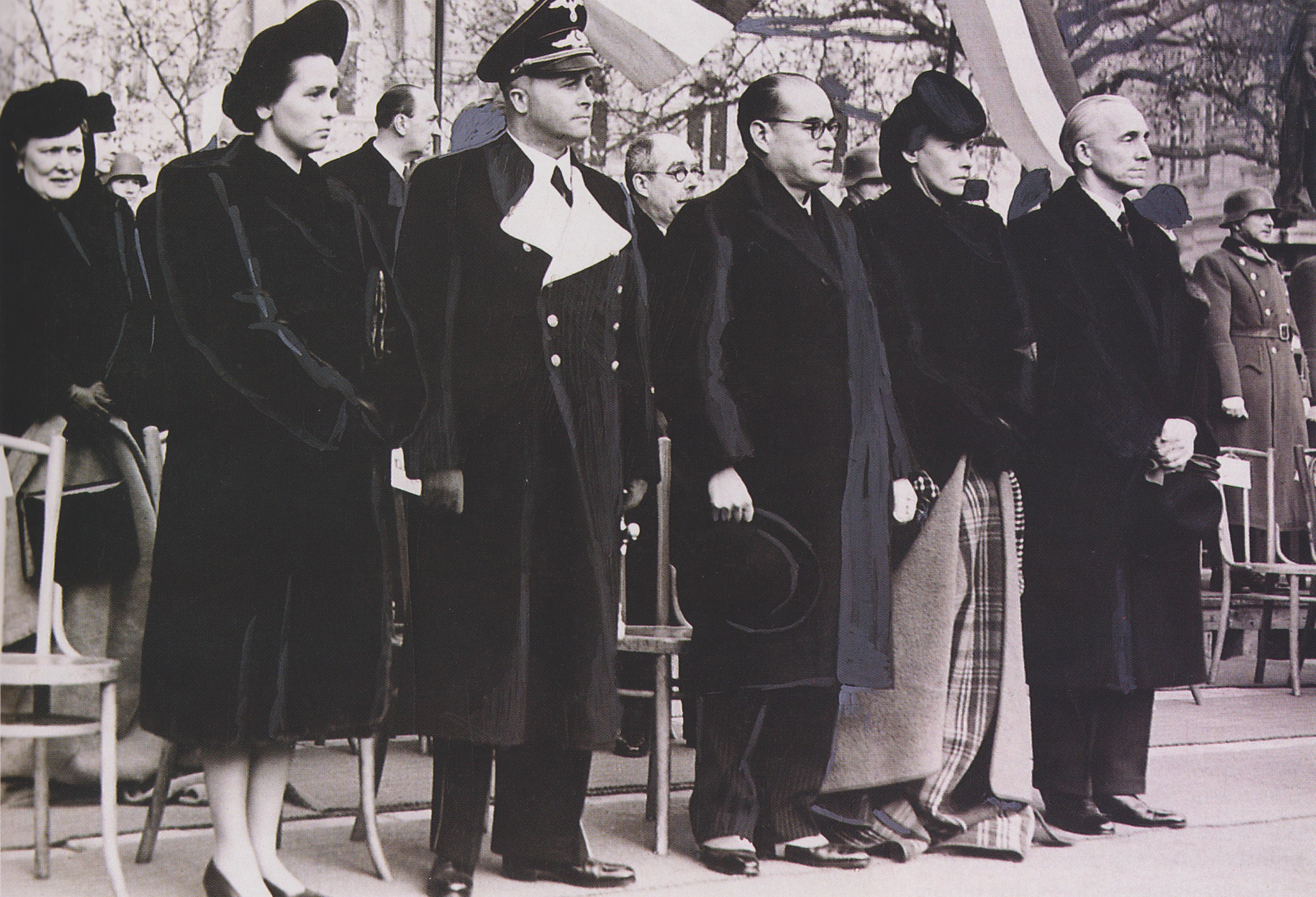 László Bárdossy and his wife, Marietta Braun de Belatin with German Ambassador to Hungary Dietrich von Jagow and his wife during a ceremony.